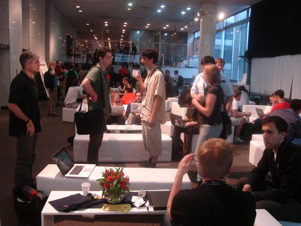 Wikimania 2009 Coffee break en el hall A/B